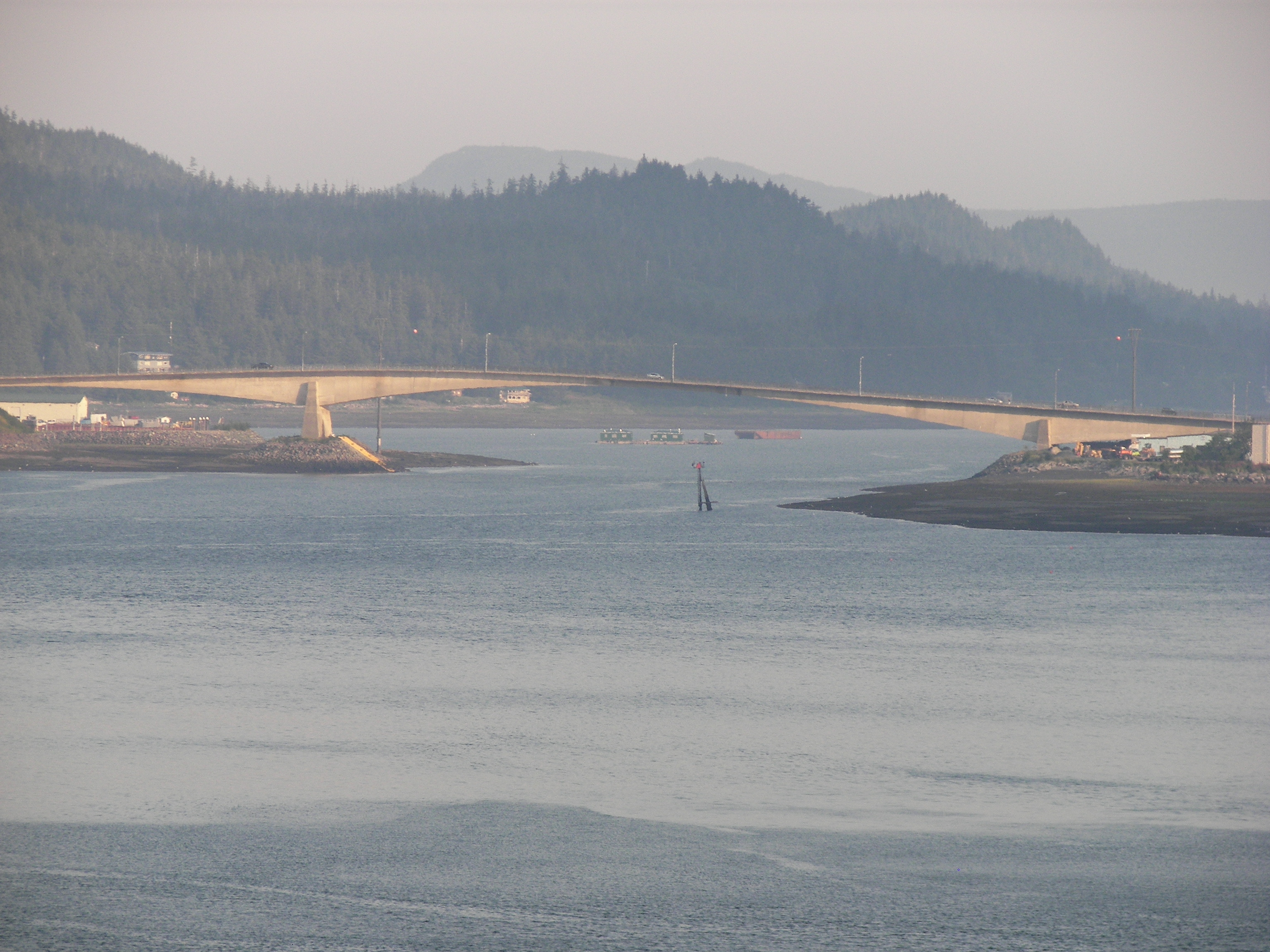 Juneau-Douglas Bridge connecting Douglas Island to downtown Juneau across the Gastineau Channel in Alaska, United States.